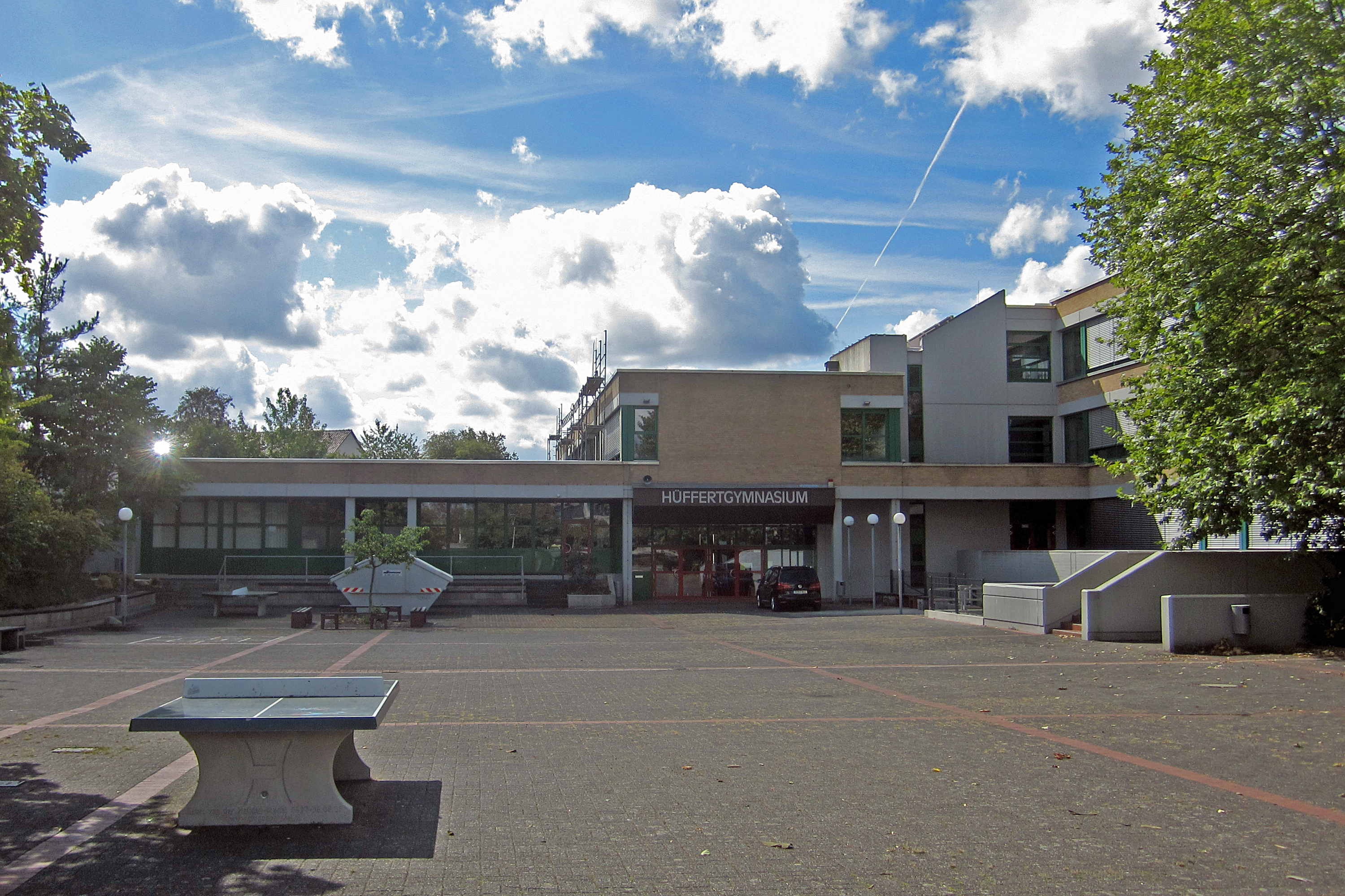 The new building of Hüffertgymnasium Warburg, a secondary school in Warburg, North Rhine-Westphalia, Germany (built in 1978).